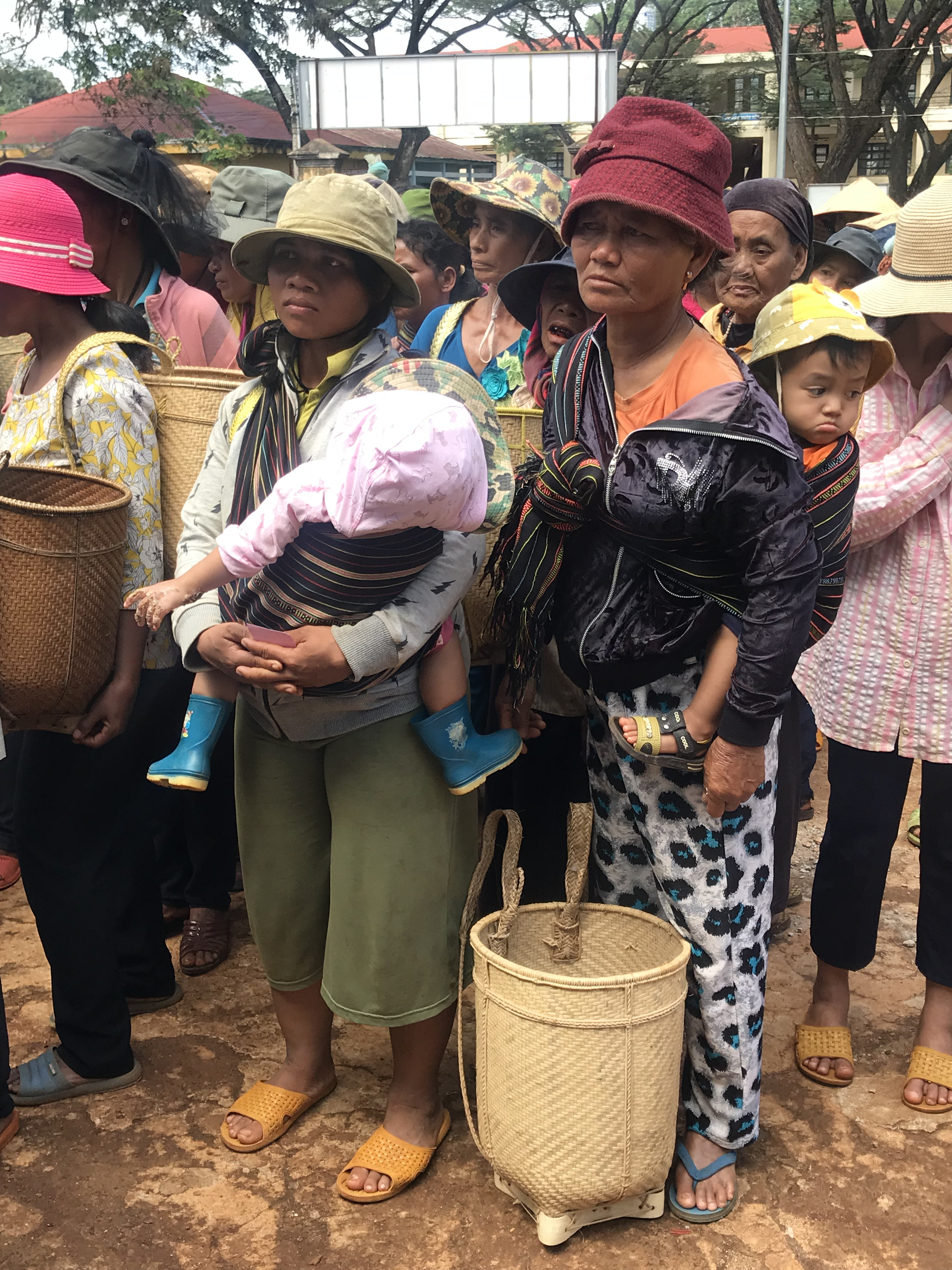 K'ho Nop people in Gia Bac